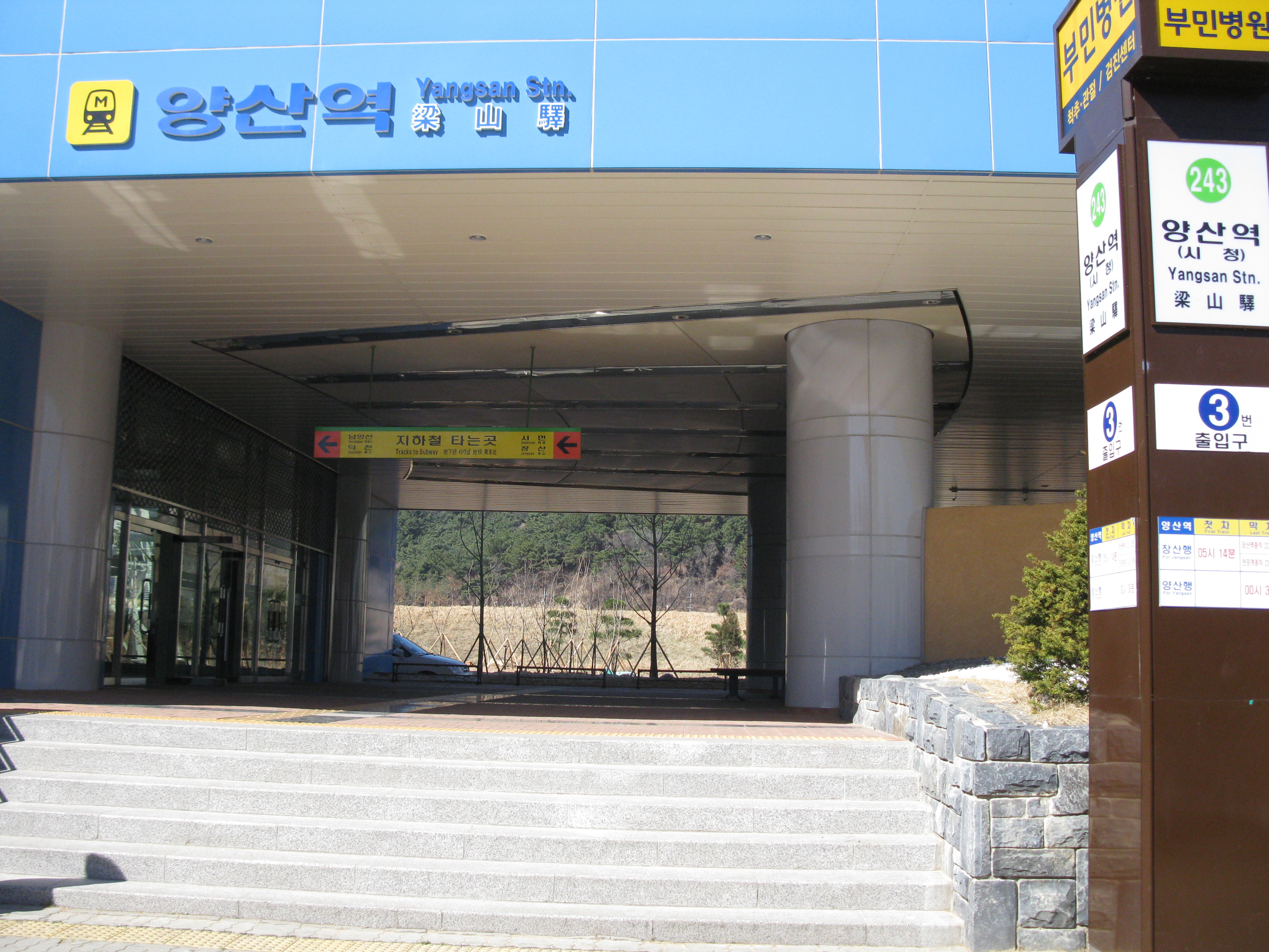 The no.3 entrance to Yangsan Station on Busan Subway Line 2 in Yangsan city, Gyeongsangnam-do, Republic of Korea(South Korea)